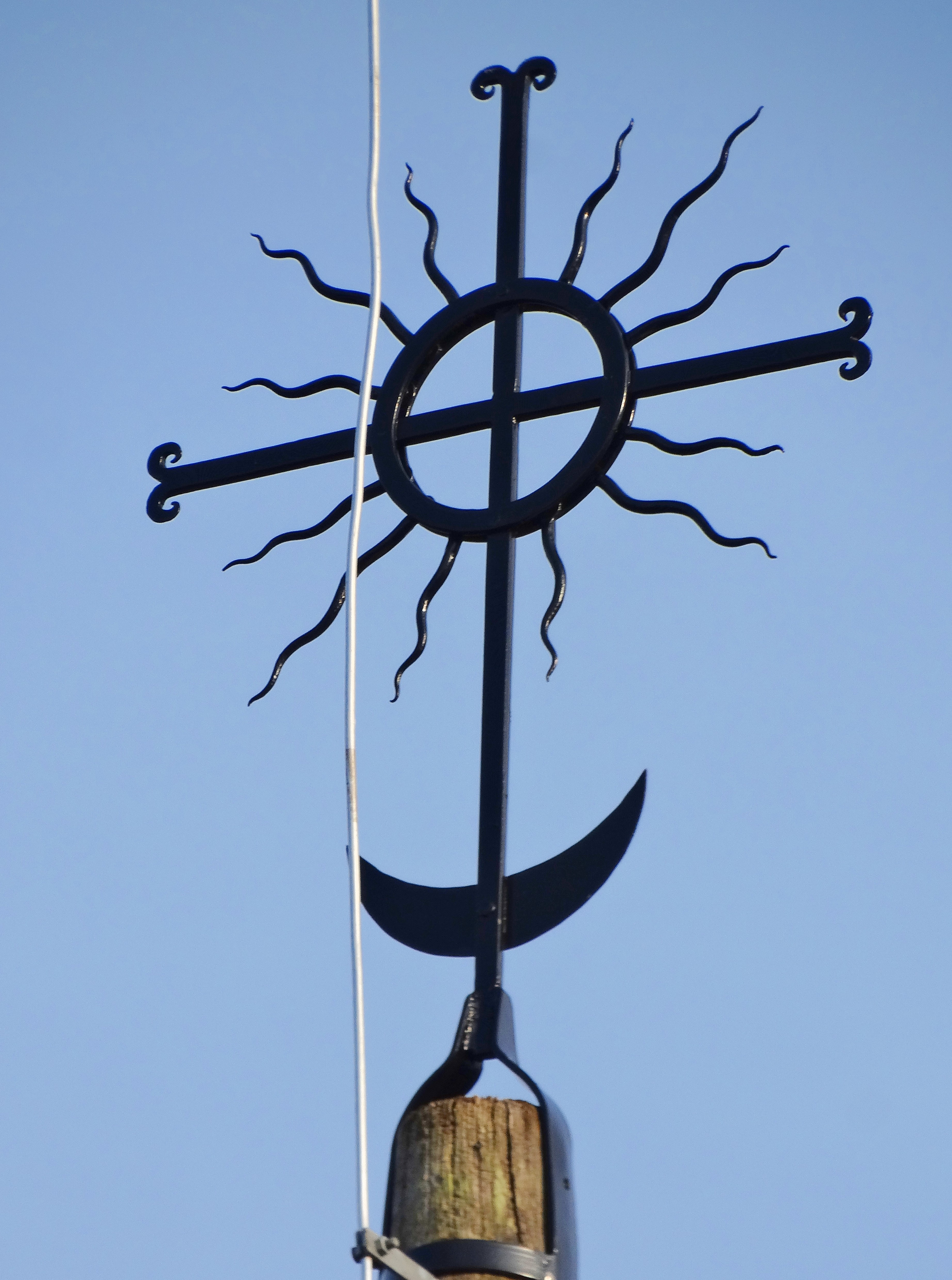 Grūšlaukė Cemetery Chapel, tower cross, Kretinga, Lithuania